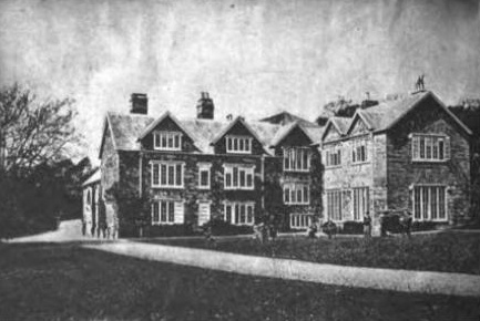 Illustration of Portledge House, Alwington, Devon, in the monograph "The Coffin Name and Armorial Bearings," by John Coffin Jones Brown, October , page 376, The New England Historical and Genealogical Register, October 1881, published by the New England Historic Genealogical Society, Boston, Massachusetts.